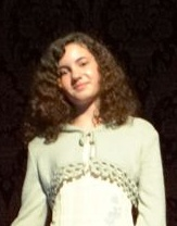 Ivana Baquero receiving a standing ovation after the North American premiere of Pan's Labyrinth at the Toronto International Film Festival.